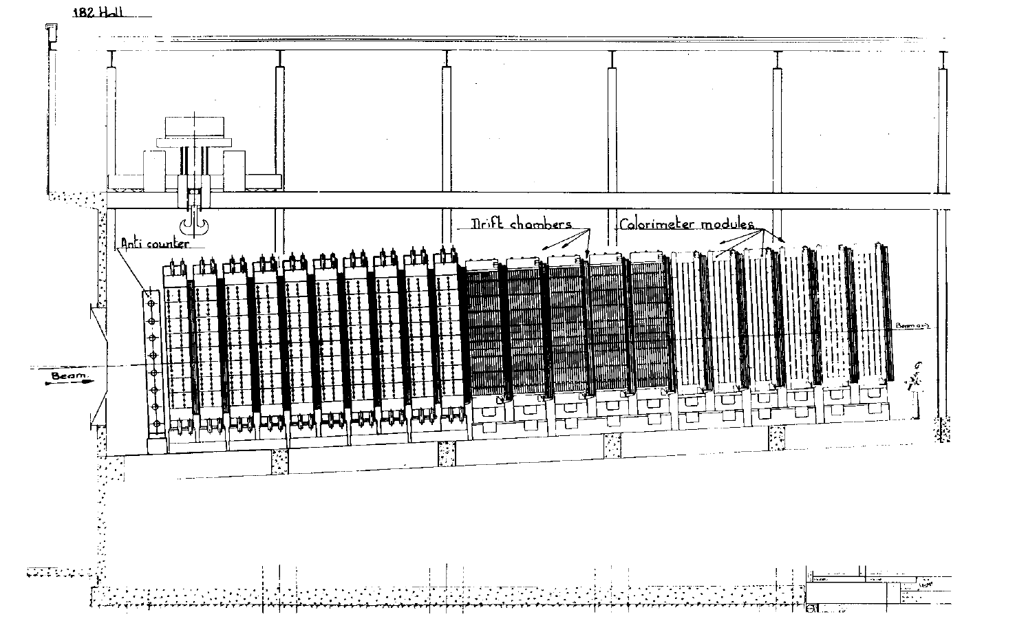 The image shows a technical sketch of the upgraded CDHS detector at CERN, which was operational until 1984. The neutrino beam enters the detector from the left side, where it hits the Anti counter. The core of the detector consisted of 20 (19 before the upgrade) magnetized iron modules. In the spacings between these, drift chambers for track reconstruction were installed. Additionally, plastic scintillators were inserted into the iron. Each iron module served successively as an interaction target, where the neutrinos hit and produced hadron showers, a calorimeter that measured those hadrons' energy and a spectrometer, determining the momenta of produced muons via magnetic deflection.